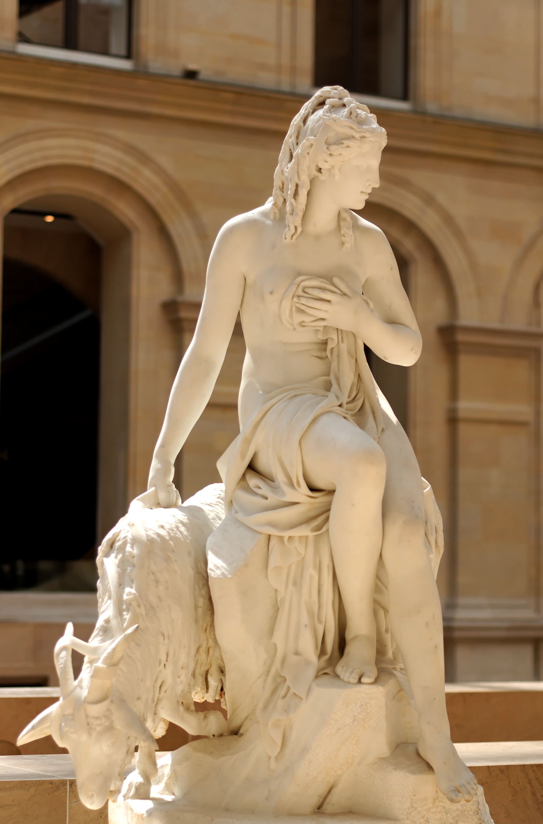 The statue was commissioned for the Queen's dairy at Rambouillet.